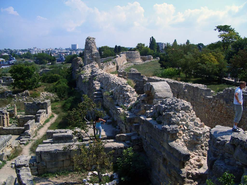 Ruins of Chersonesos, Ukraine